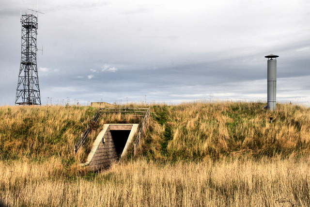 Cultybraggan nuclear bunker This bunker was designed to accommodate the chosen few in case of nuclear war. Set within Cultybraggan army camp the bunker would have been the admin centre for what was left of Scotland after a nuclear war.